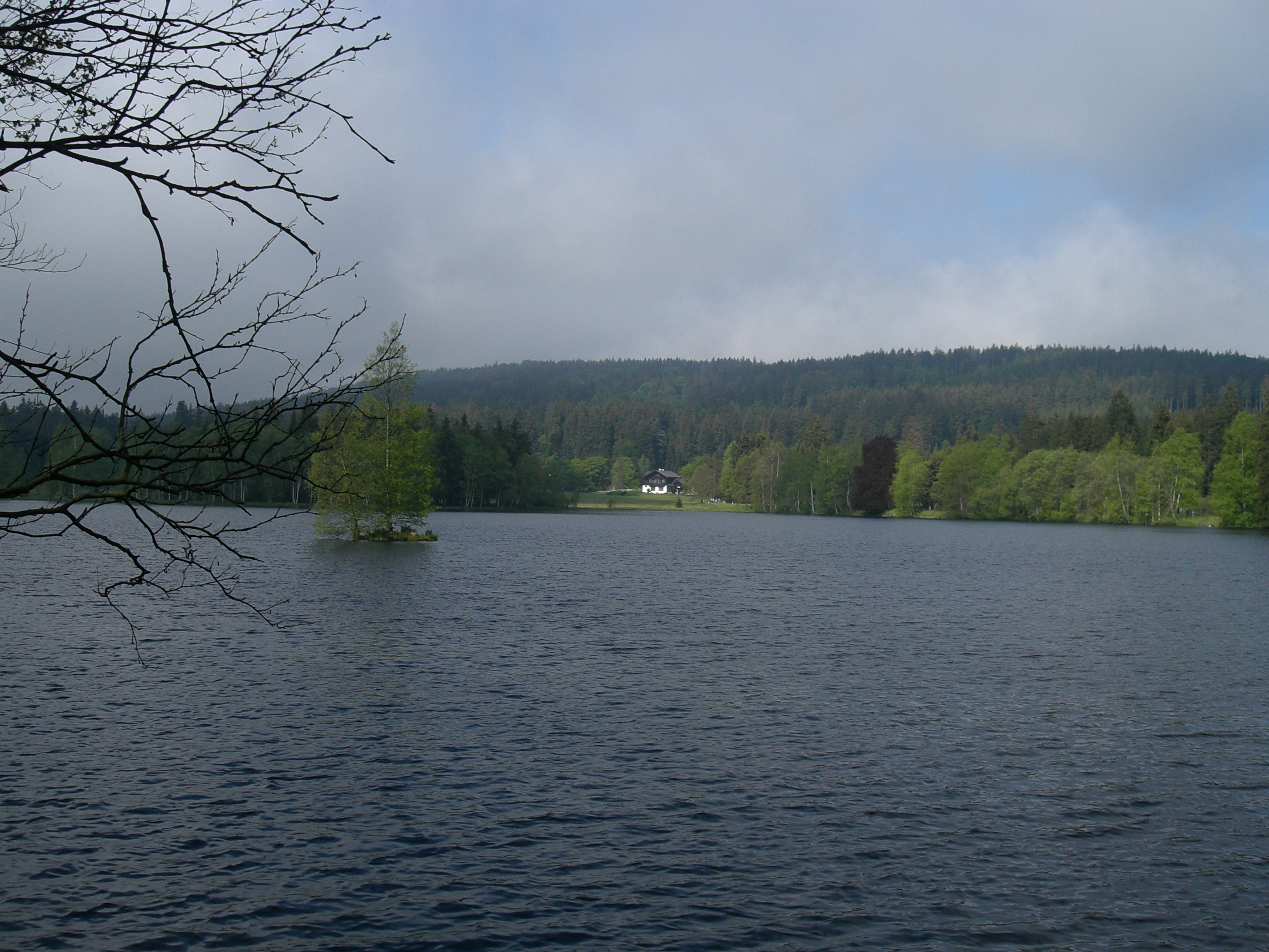 Kladská pond near Mariánské Lázně, Czech Republic. Around 50°1'34.92"N,12°40'30.55"E